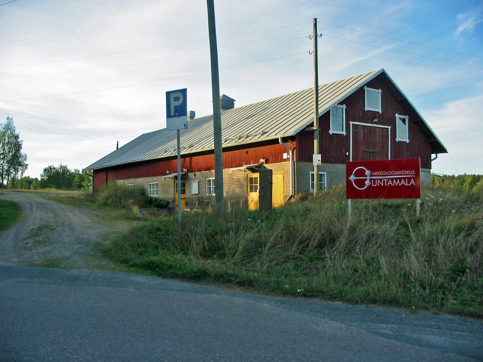 Untamala Archaeology center in Untamala, Laitila, Finland. The center has been closed since 2010.